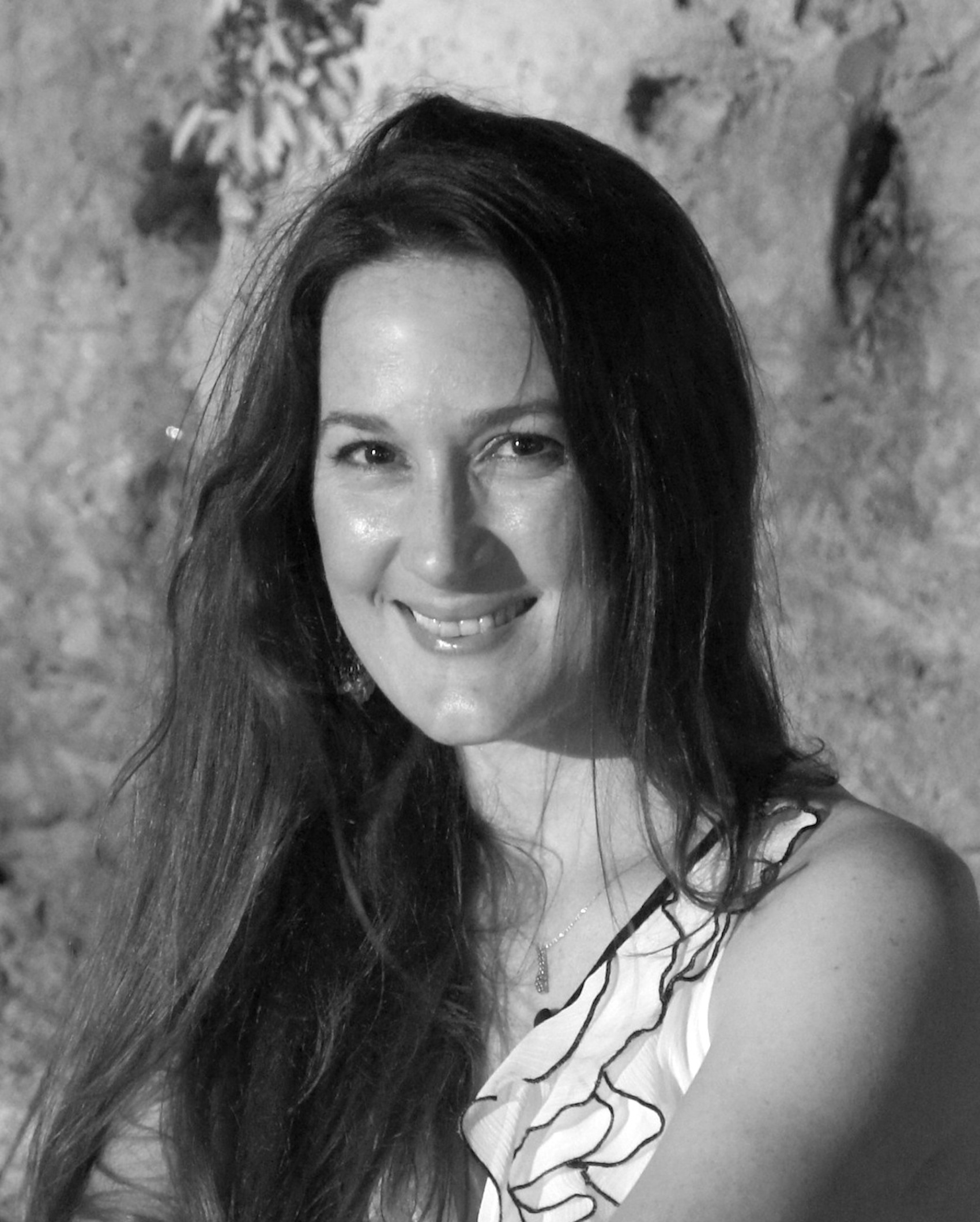 Cecilia Lueza (born 1971 in Posadas, Misiones Province, Argentina) is an Argentine-born American artist and sculptor.